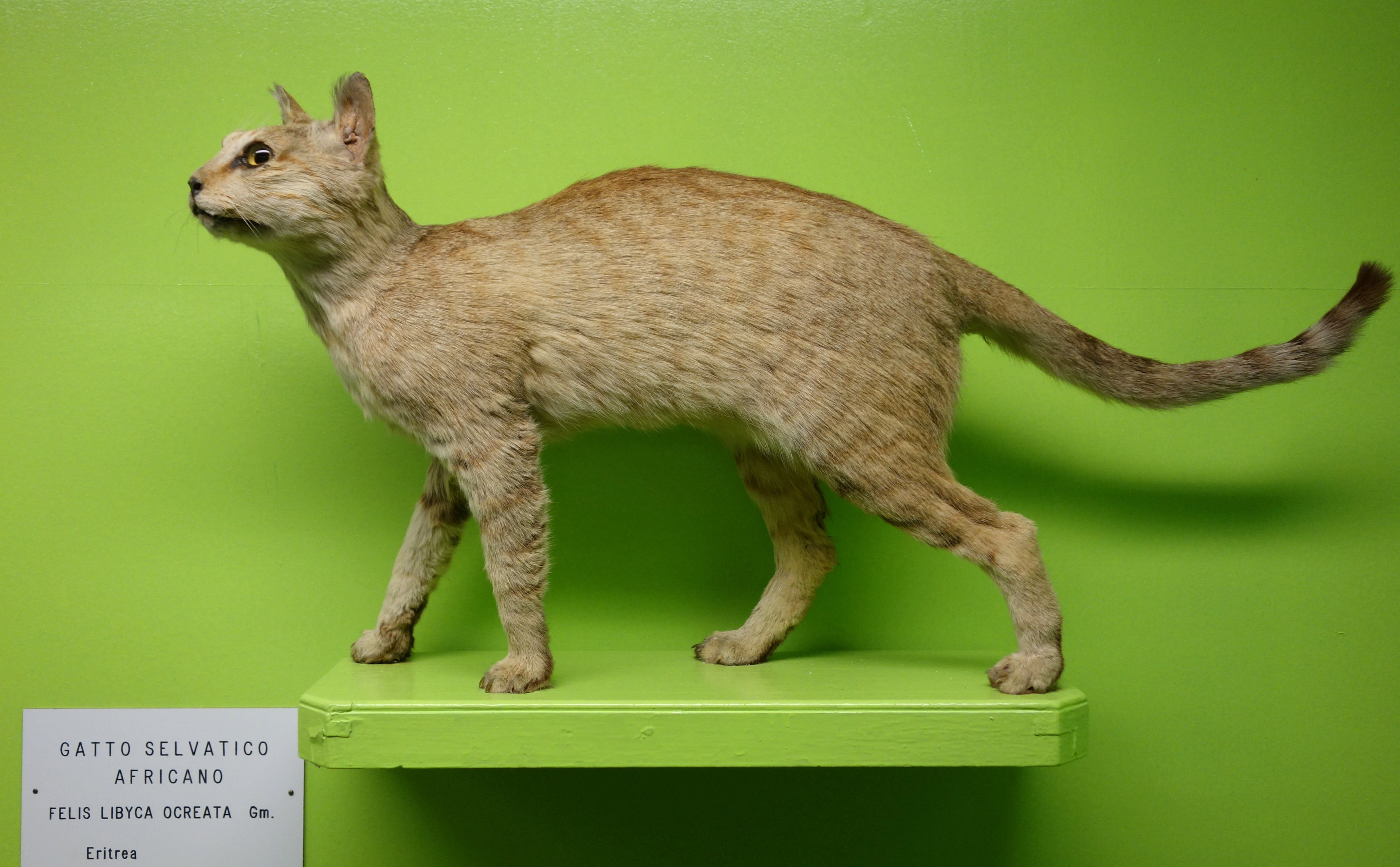 Exhibit in the Museo Civico di Storia Naturale di Genova, Via Brigata Liguria, 9, 16121, Genoa, Italy.